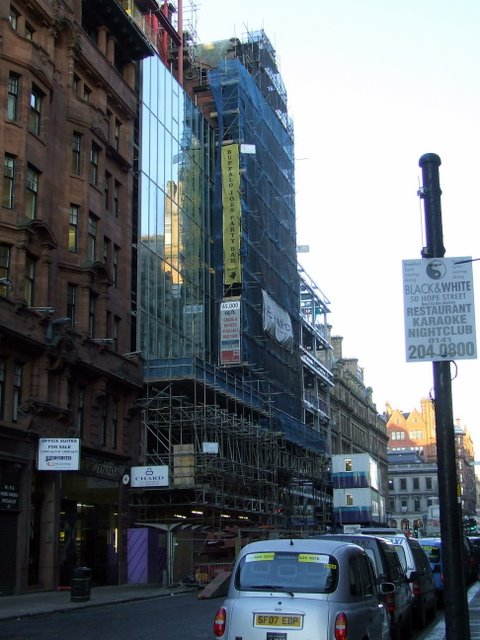 Hope Street "Hope" that modern construction blends in with the current buildings on the street.